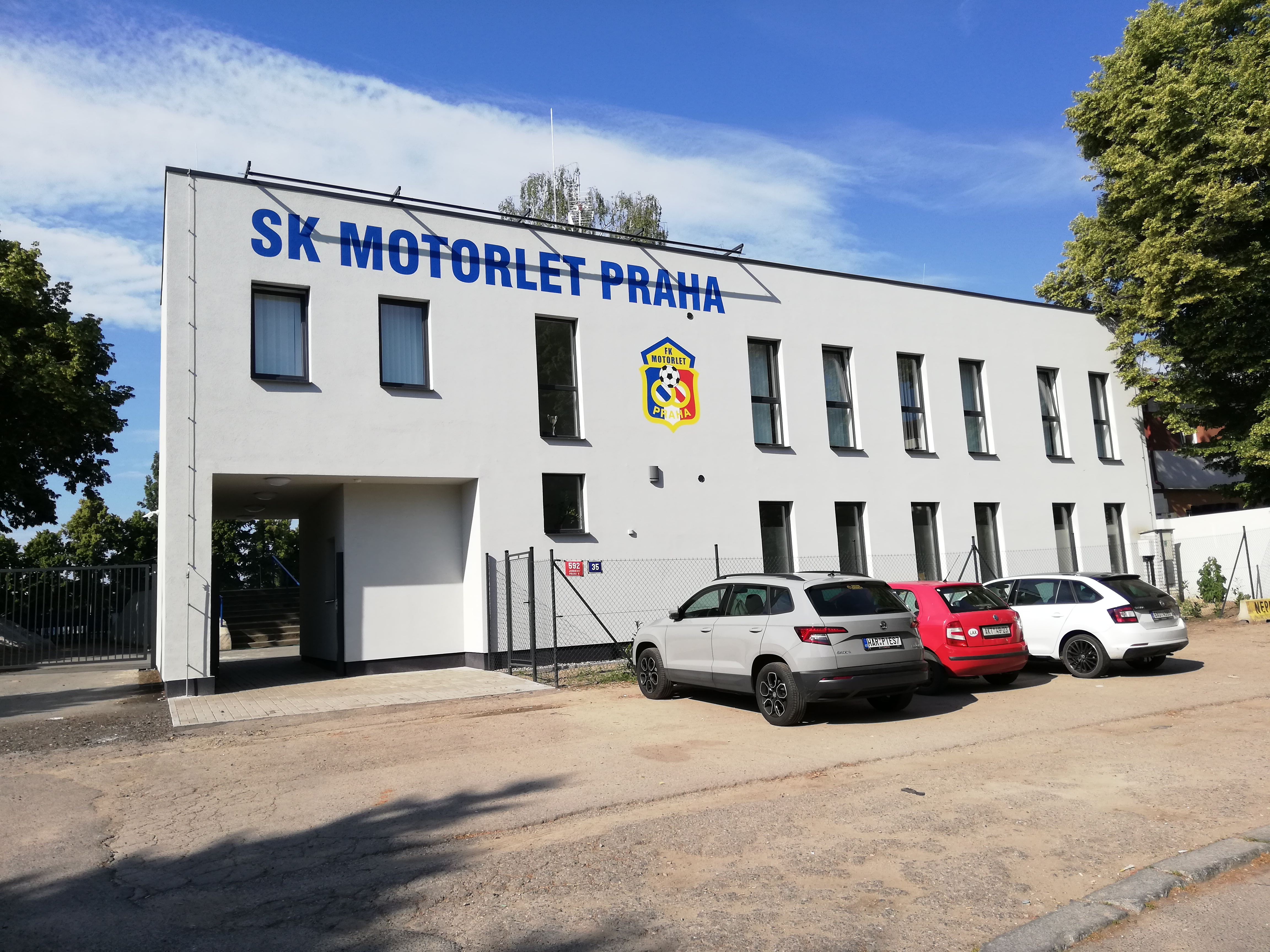 Newly built (year 2020) building of "SK Motorlet Prague" with the "FK (football club) Motorlet Prague" logo. In the left part of the building you can see the passage to the area of the football stadium of "FK (football club) Motorlet Prague"